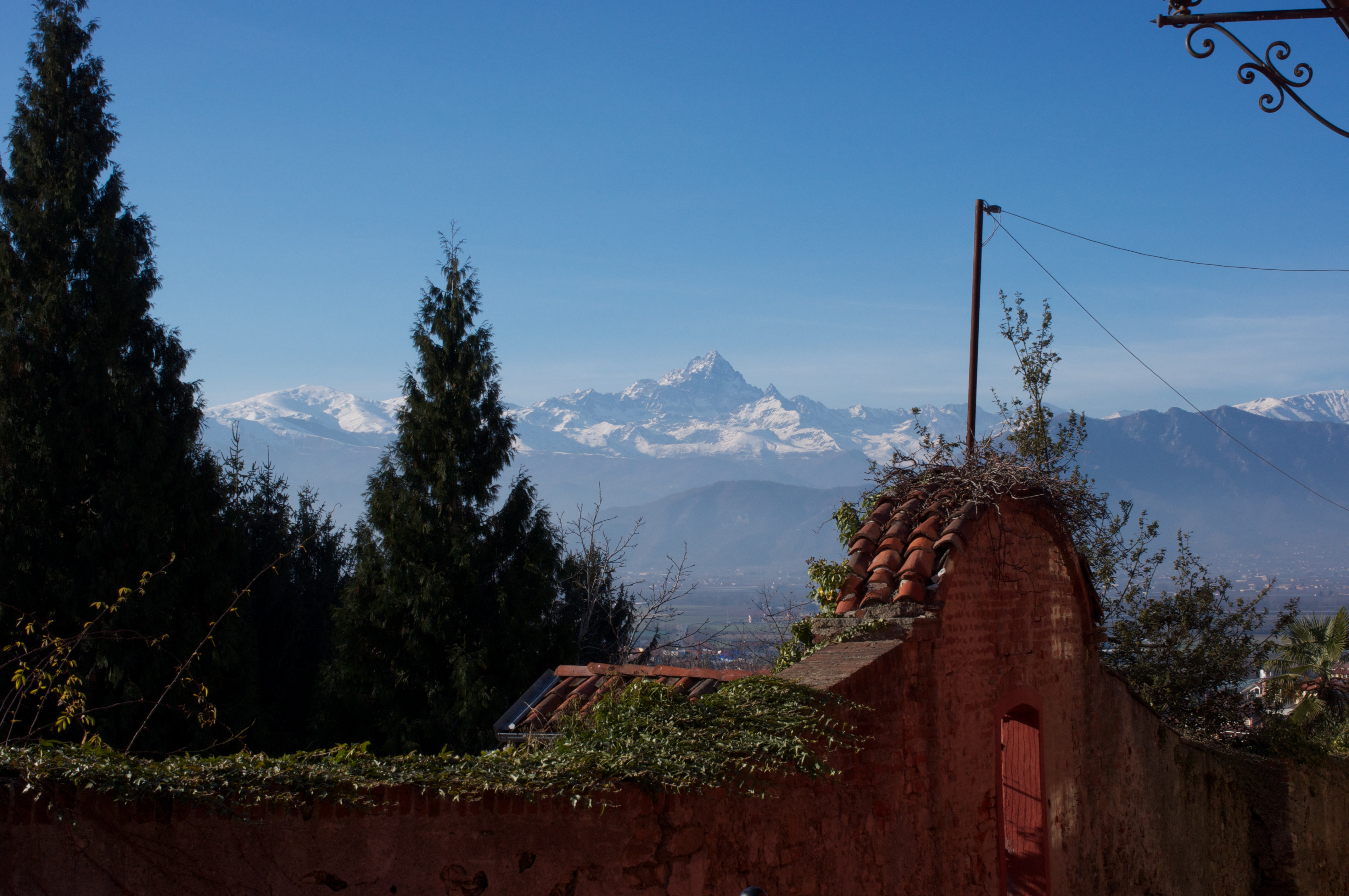 Saluzzo's landscape